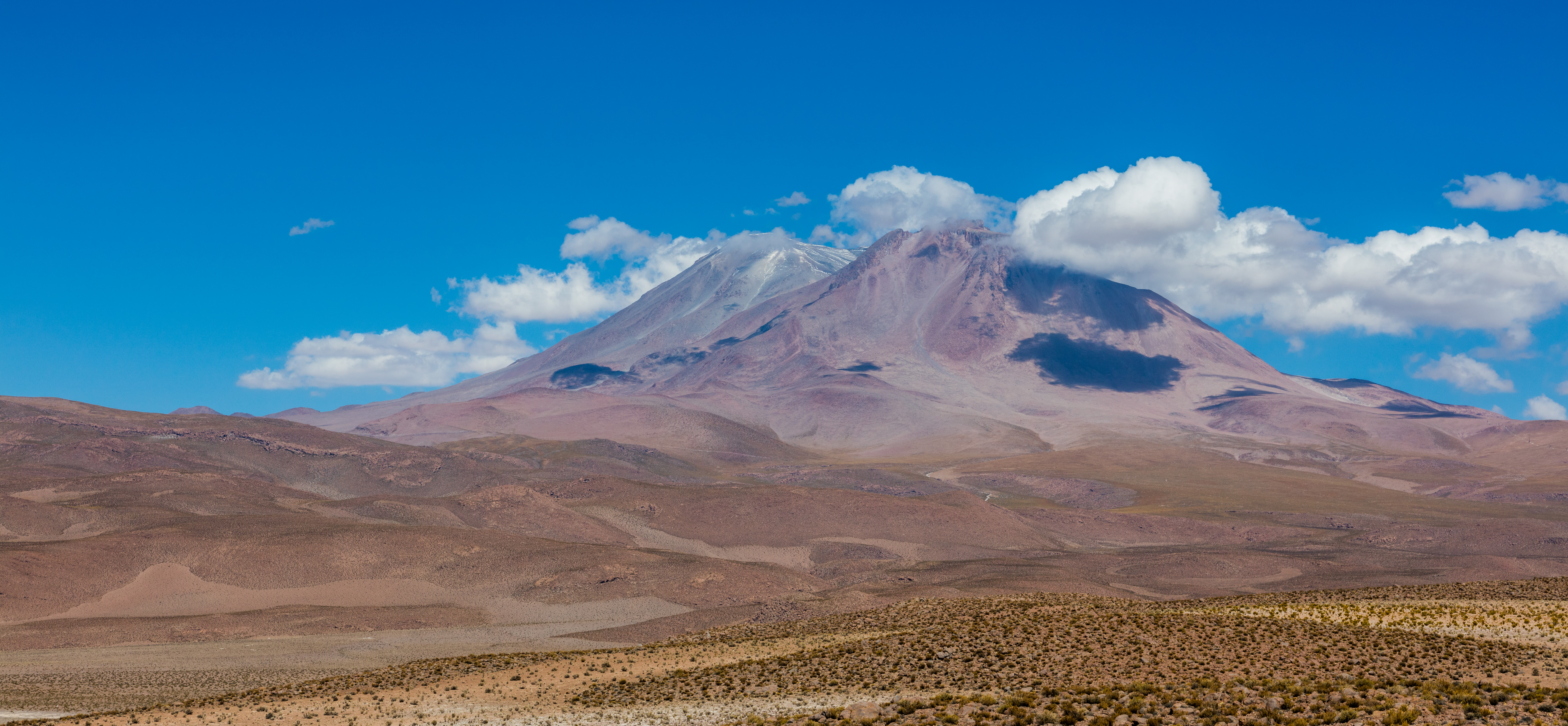 Aucanquilcha Volcano, Chile